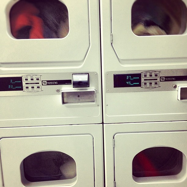 Maytag commercial laundry machines